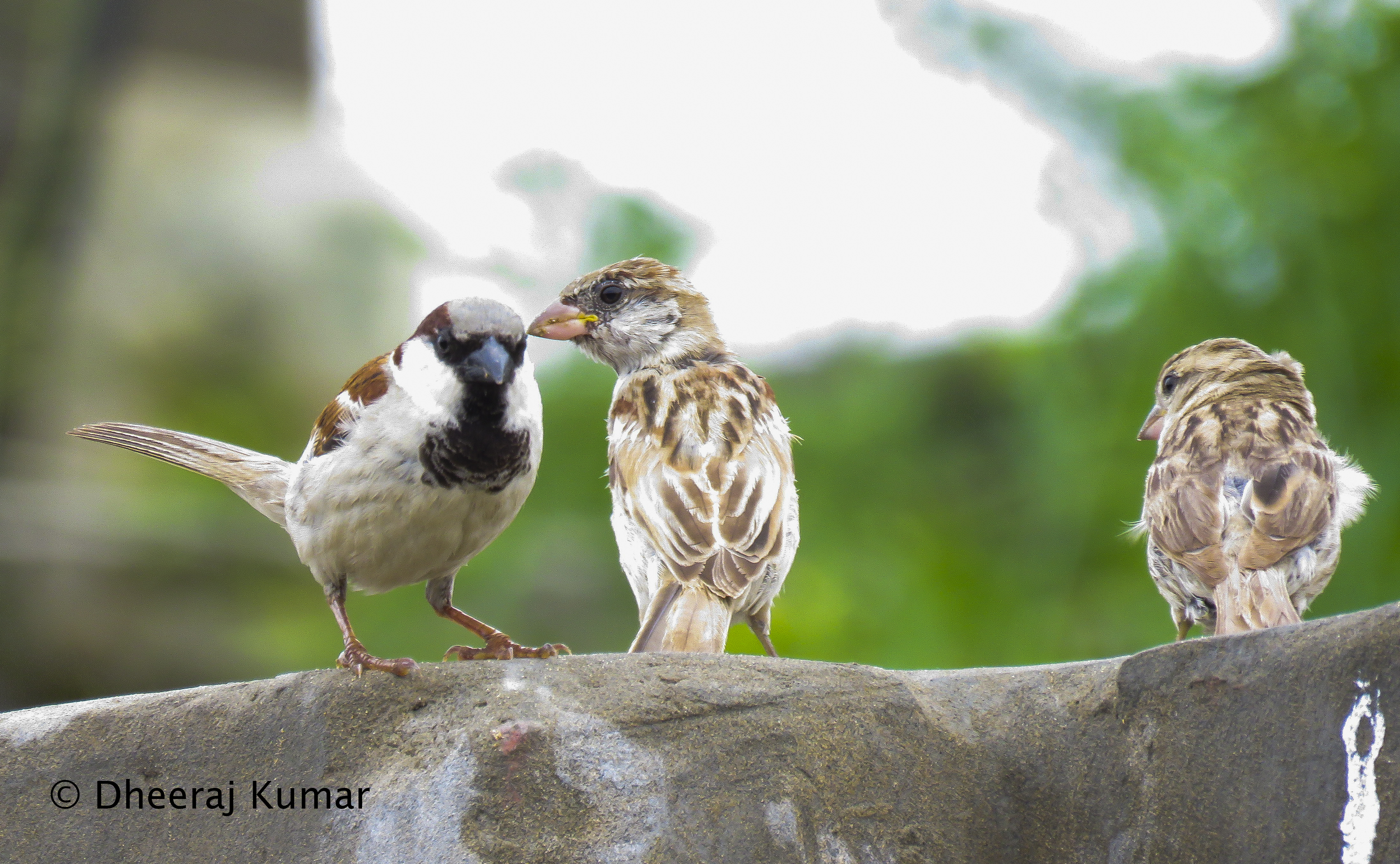 Birds in thar